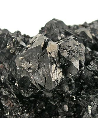 Henritermierite Locality: Wessels Mine (Wessel's Mine), Hotazel, Kalahari manganese fields, Northern Cape Province, South Africa (Locality at ) Size: 4.5 x 4 x 3 cm. An extremely fine specimen of this very rare species. Not only do you have a large dominant crystal on a rich matrix, but the lustre is so sharp and bright that at first glance you might think this is a magnetite from Switzerland. Ex. Charlie Key.